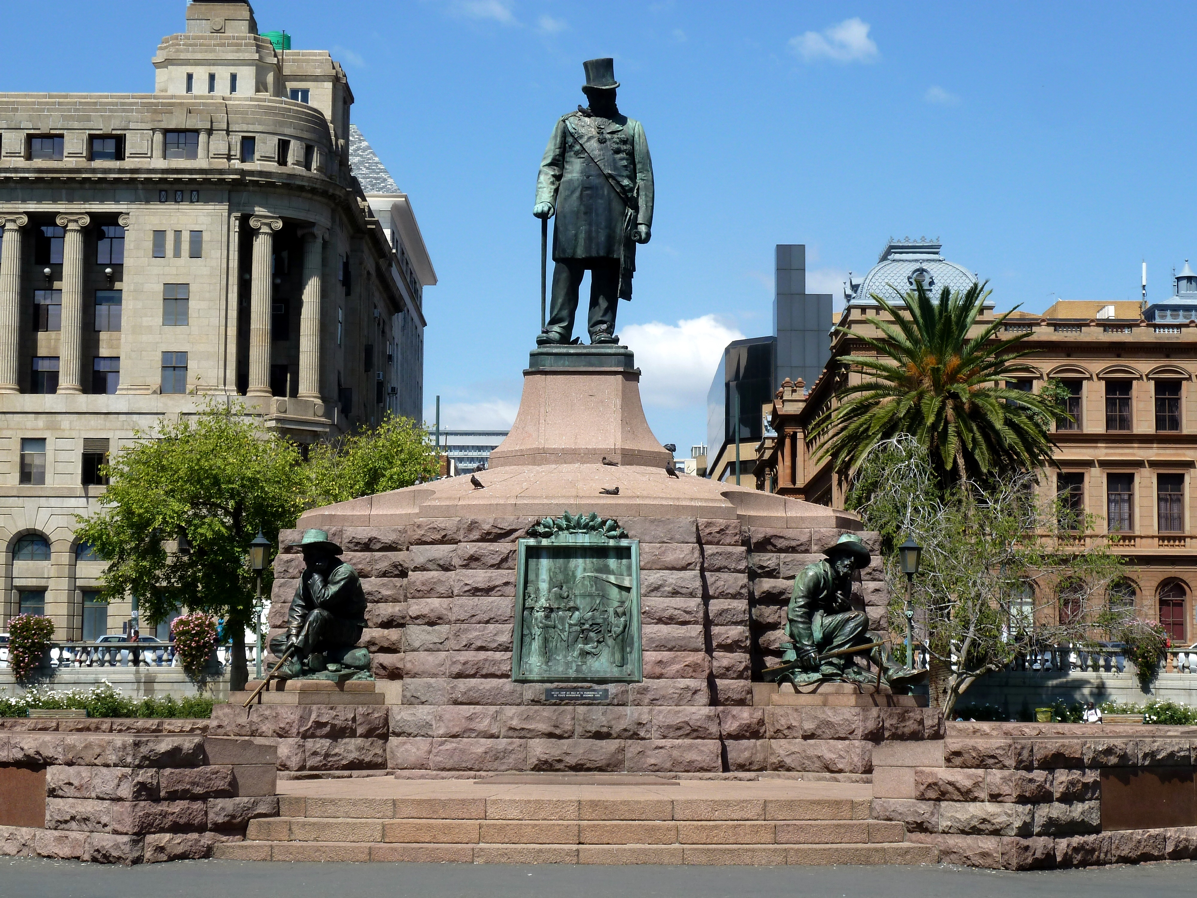 Northern aspect of the Paul Kruger statue on Church Square, Pretoria